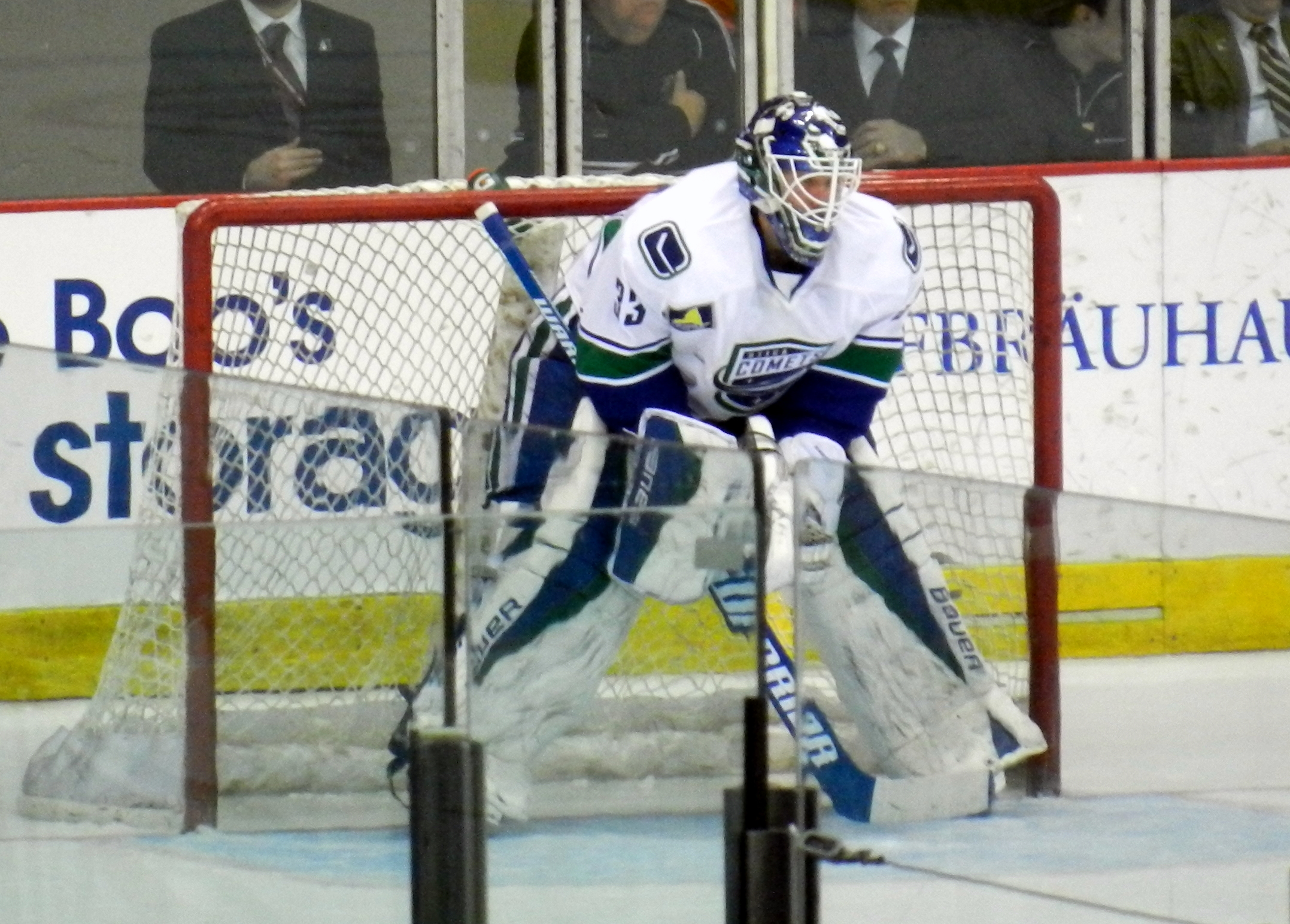 Jacob Markstrom playing for the Utica Comets